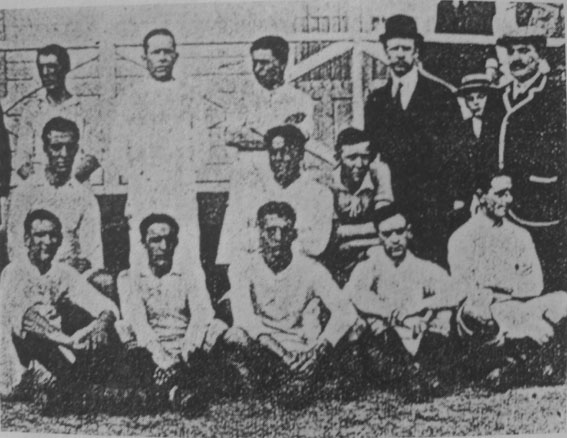 The Club Atlético San Isidro football team of 1912. The squad won the Tie Cup after defeating Nacional de Montevideo 1-0 in Buenos Aires.